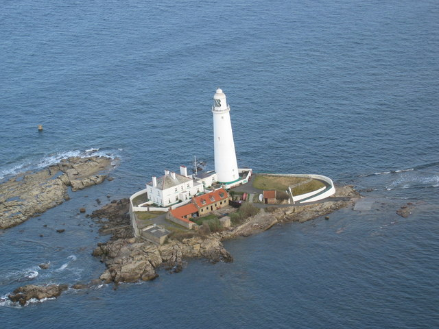 Aerial photo of St Mary's Island at high tide